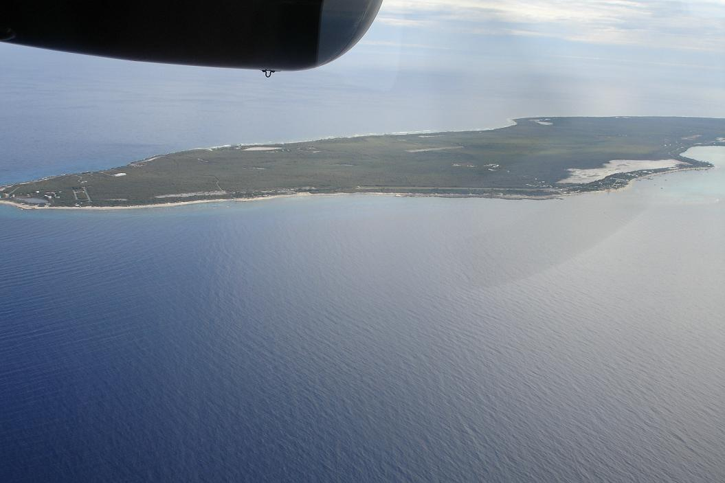 Little Cayman, as viewed from the air.